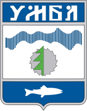 Umba (Murmansk oblast), proposal coat of arms